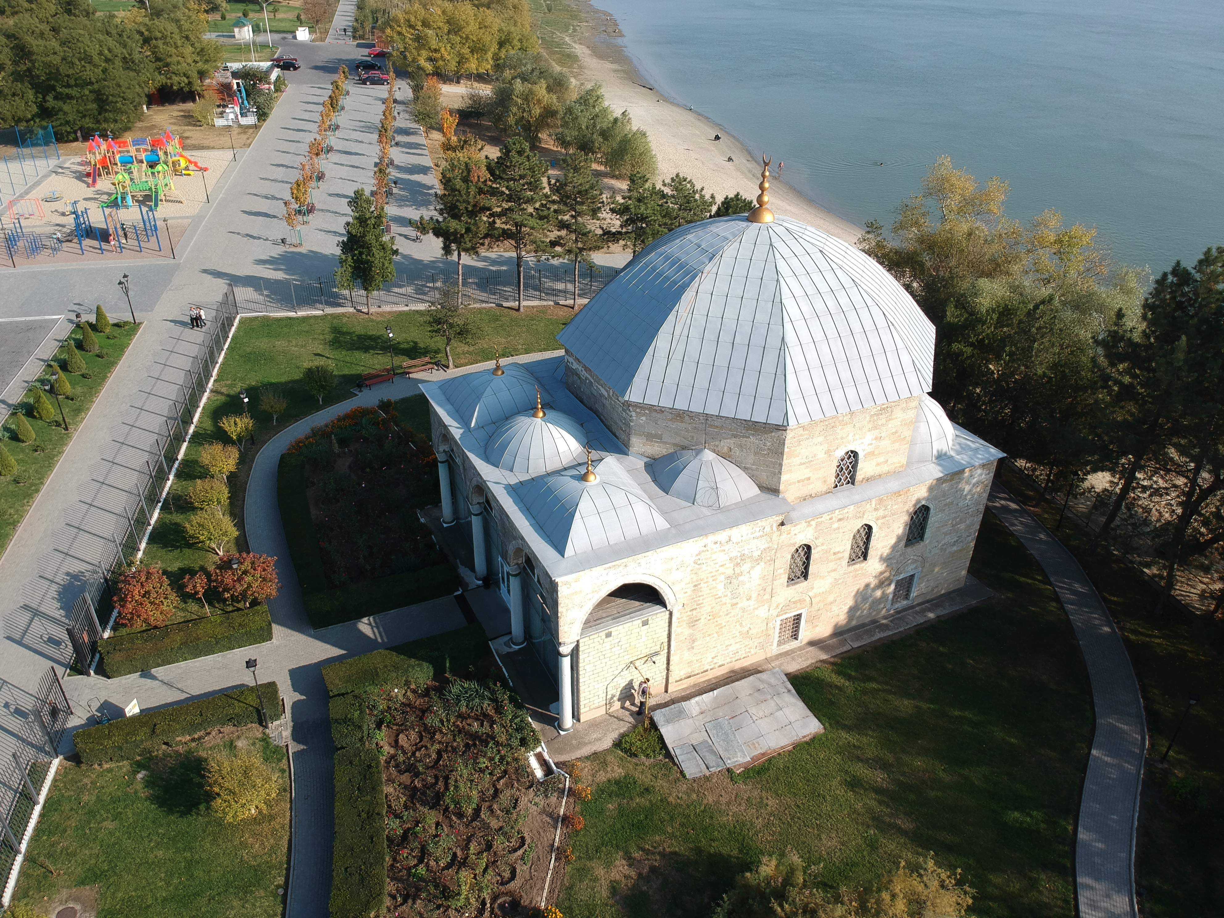 Small Mosque, Diorama Museum, in Izmail